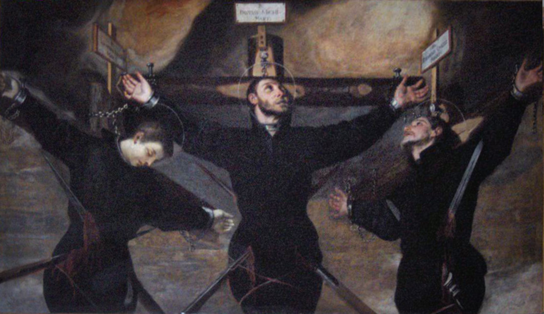 Three Jesuit martyrs in Japan by Guido Cagnacci ( 17th century)